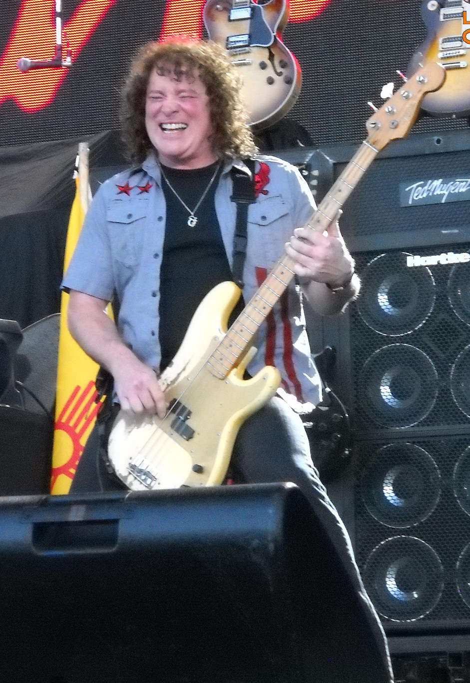 Bassist Greg Smith performing live with Ted Nugent.